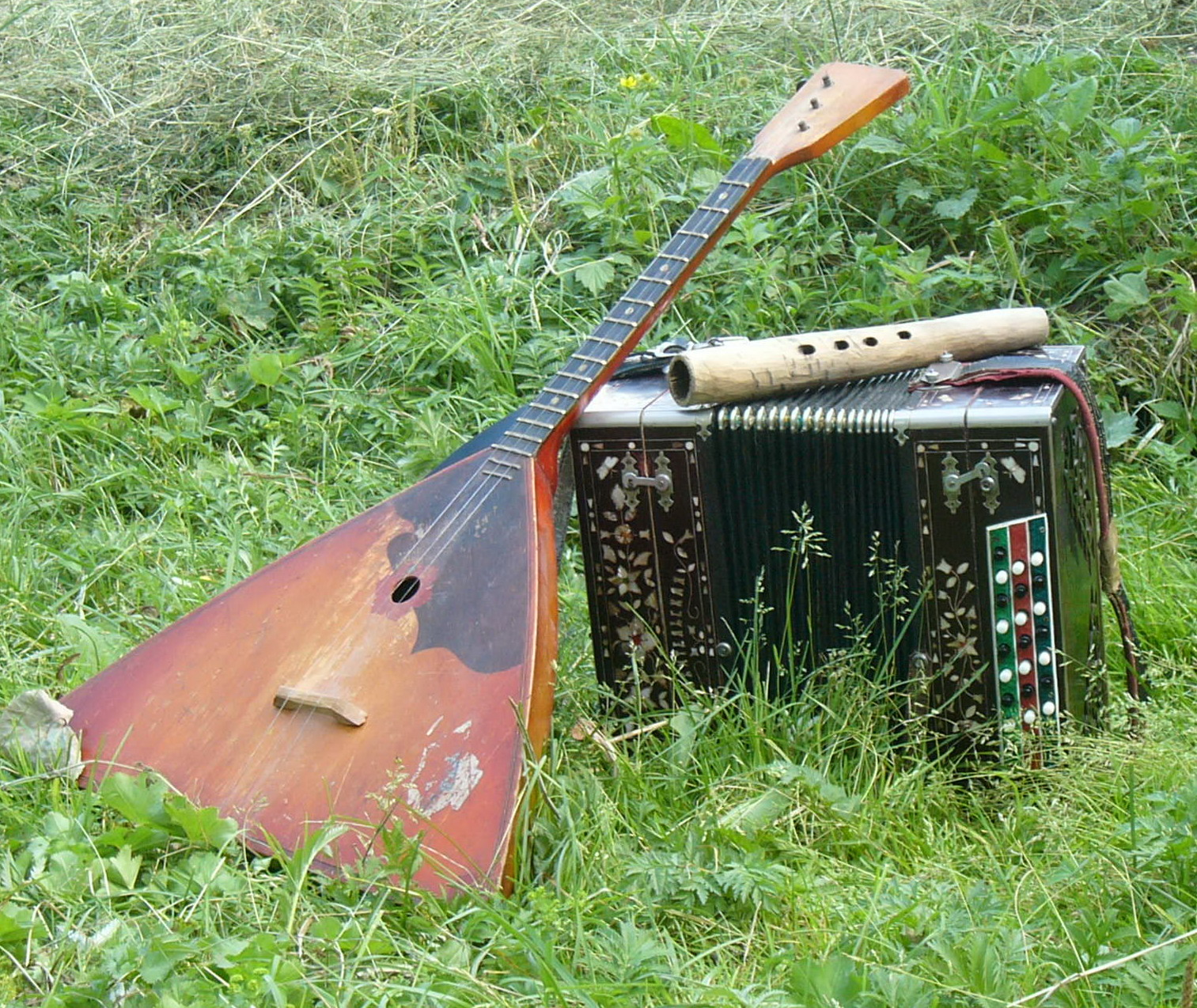 Balalaika, garmon (accordion) and a shepherd's horn (on top).